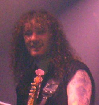 Helloween Live at Löwensall in Nuremberg 18.01.2006